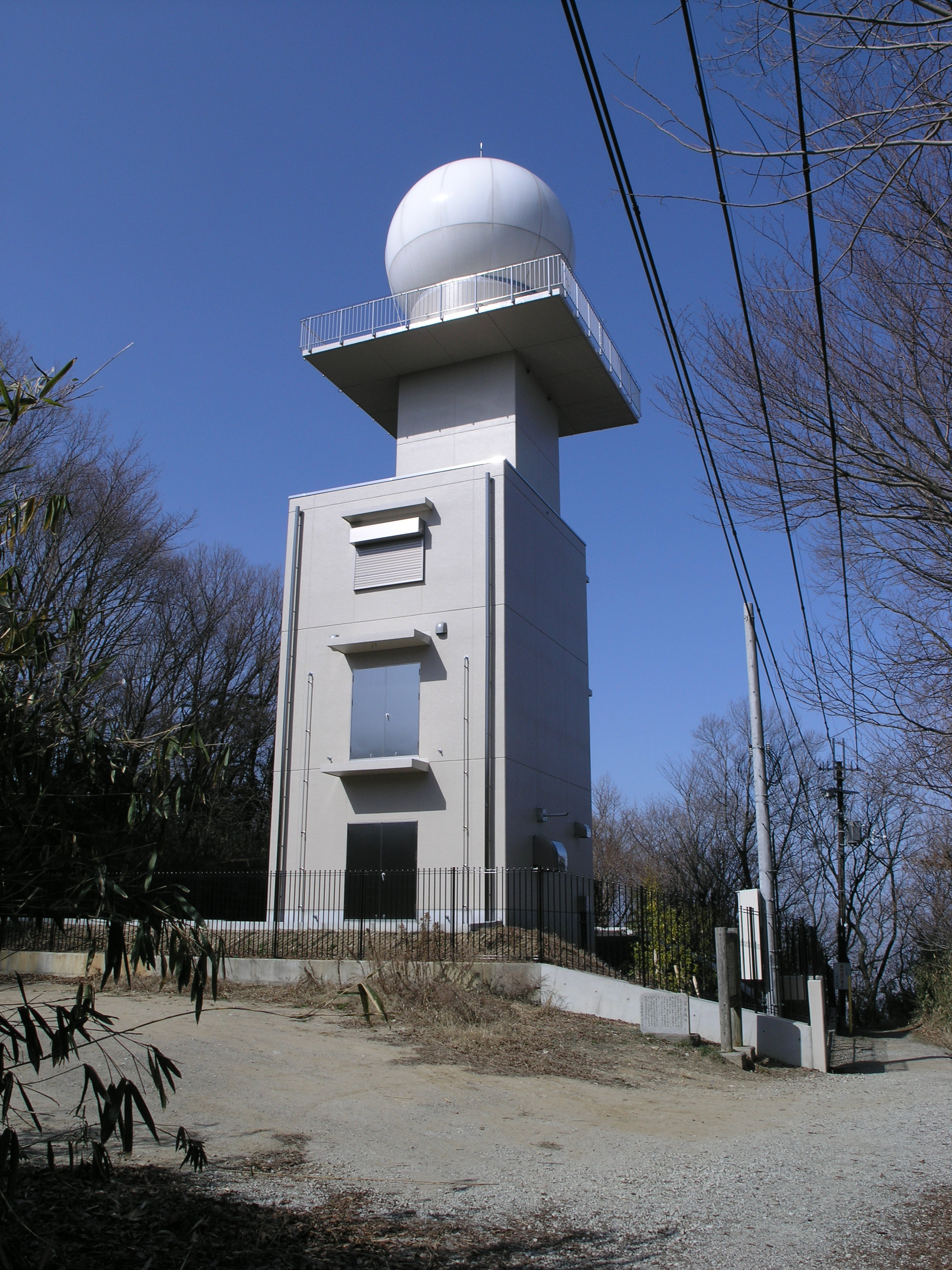 Takayasuyama weather radar observatory, Yao, Osaka, Japan